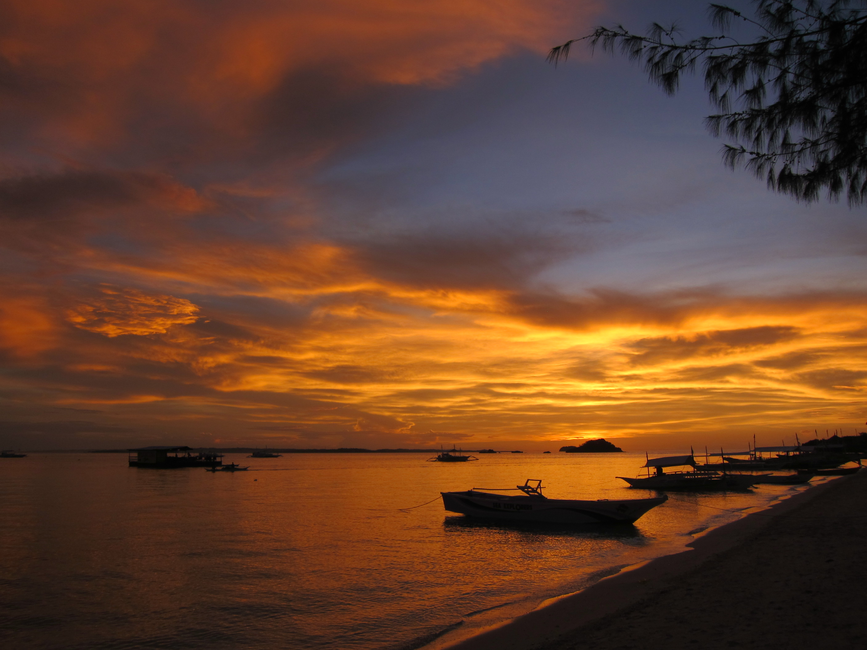 Sunset on Bounty Beach, Malapascua Island